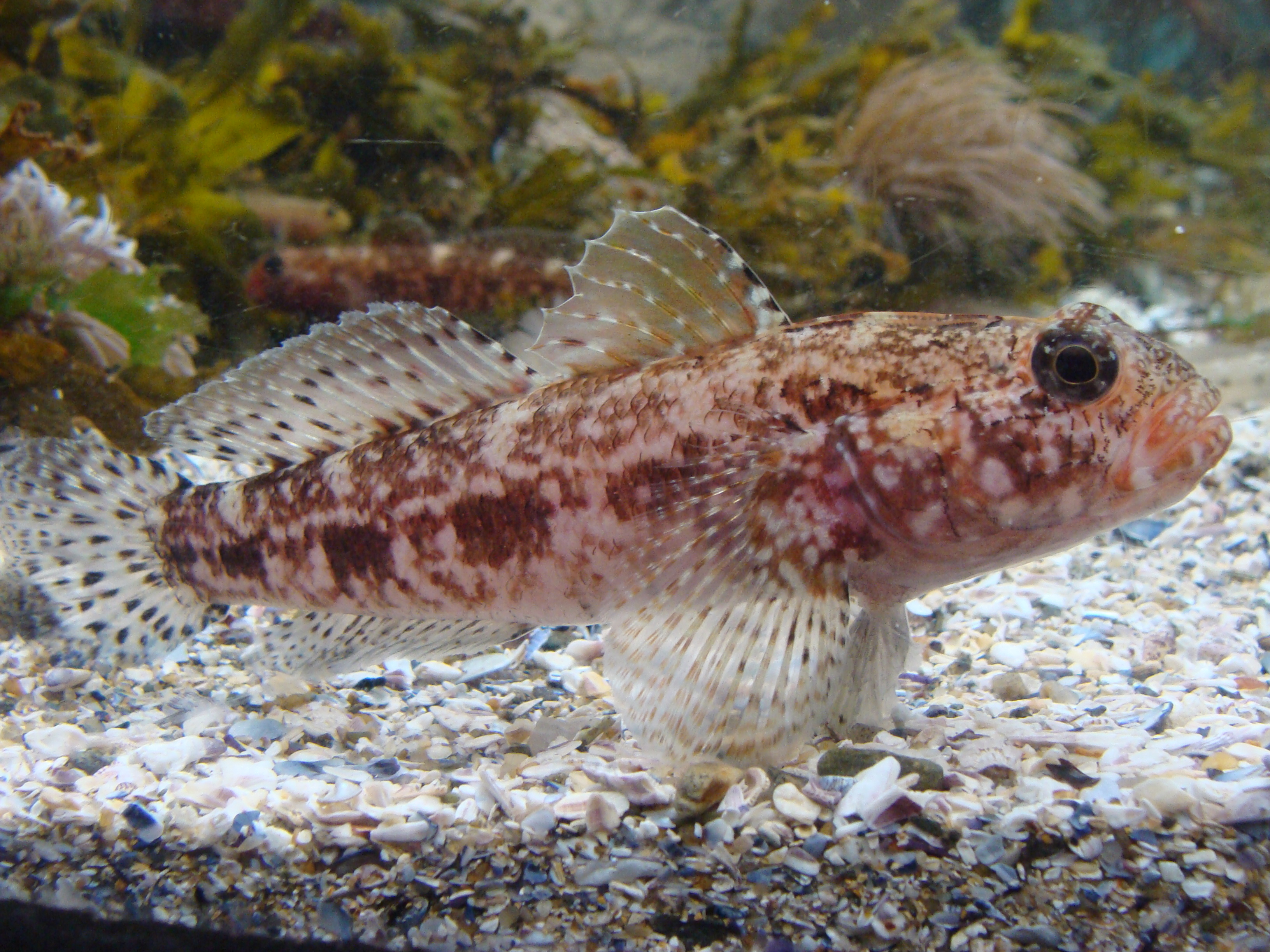 Gobius cruentatus (Red-mouthed goby) in Sala Humboldt of Aquarium Finisterrae (House of the Fishes), in Corunna, Galicia, Spain.